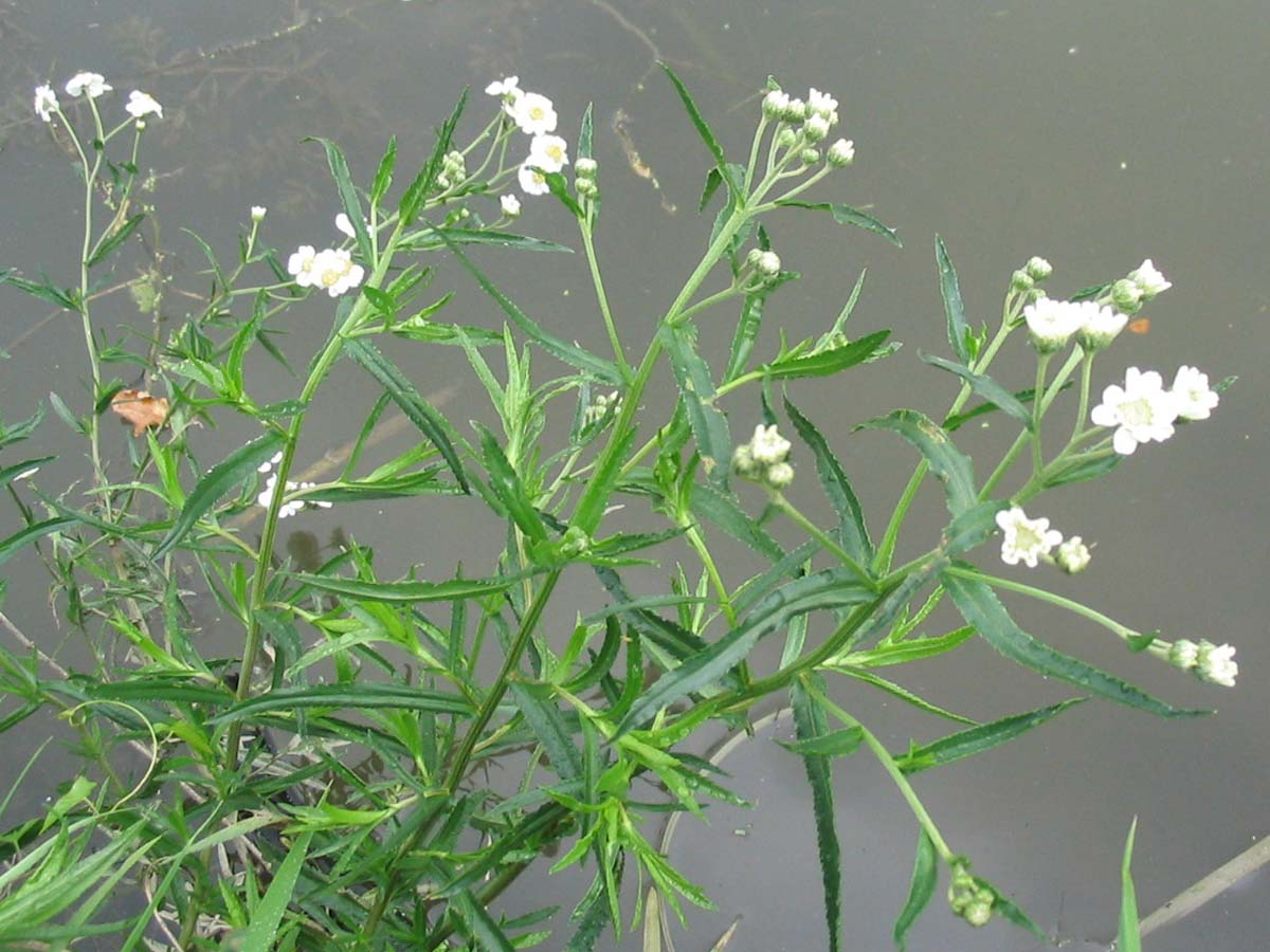 Achillea ptarmica.